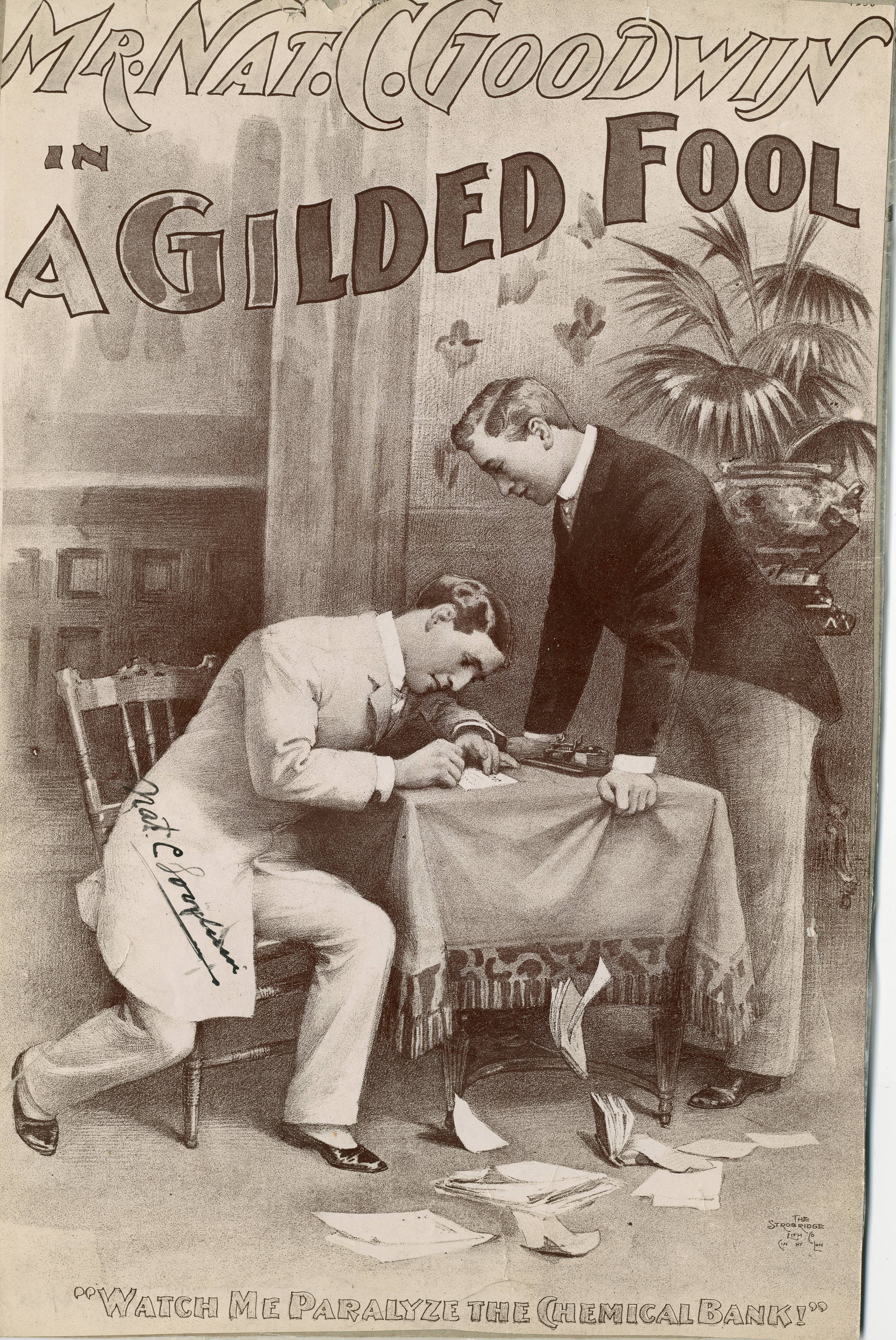 Photo of a publicity handbill or poster for Nat Goodwin in A Gilded Fool. Inscribed Sept. 29, 1915. Subjects: actors, plays